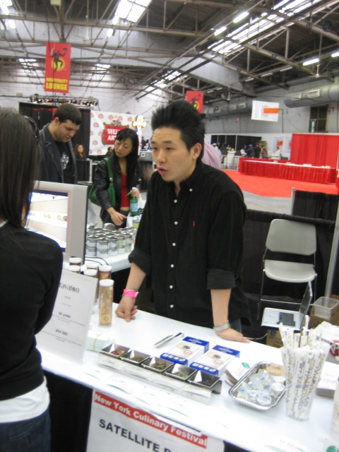 John-Paul Lee, CEO of Tavalon Tea